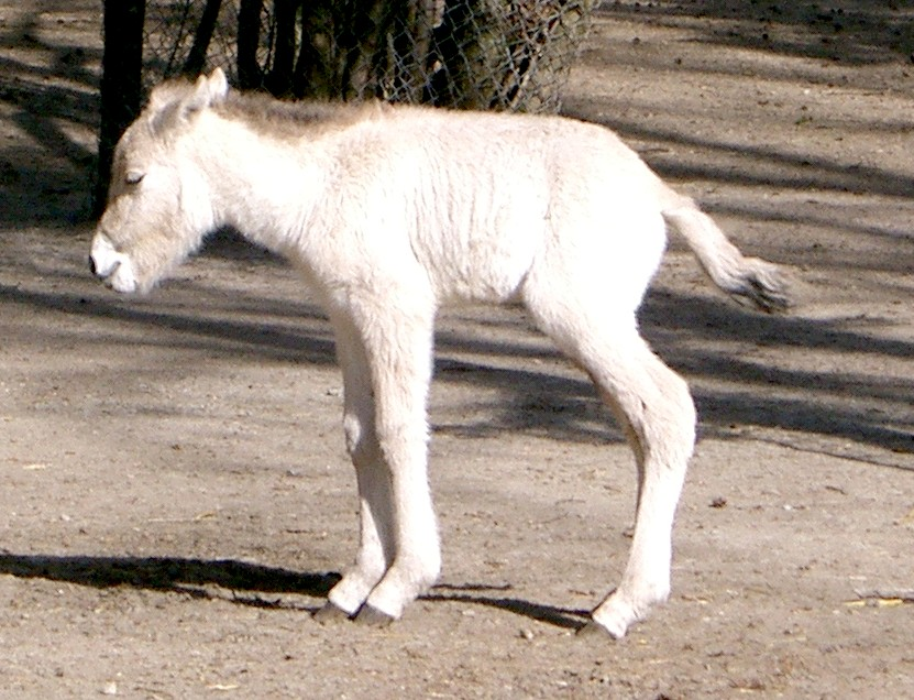 Przewalski's Horse: Foal, age: two days Photographer: photographed by myself (Zwoenitzer) Licence: GFDL